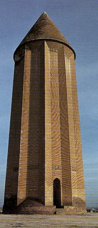 Gonbad-e Qâbûs Mausoleum — in Golestan province, Iran. 10th-century Ziyarid dynasty architecture.